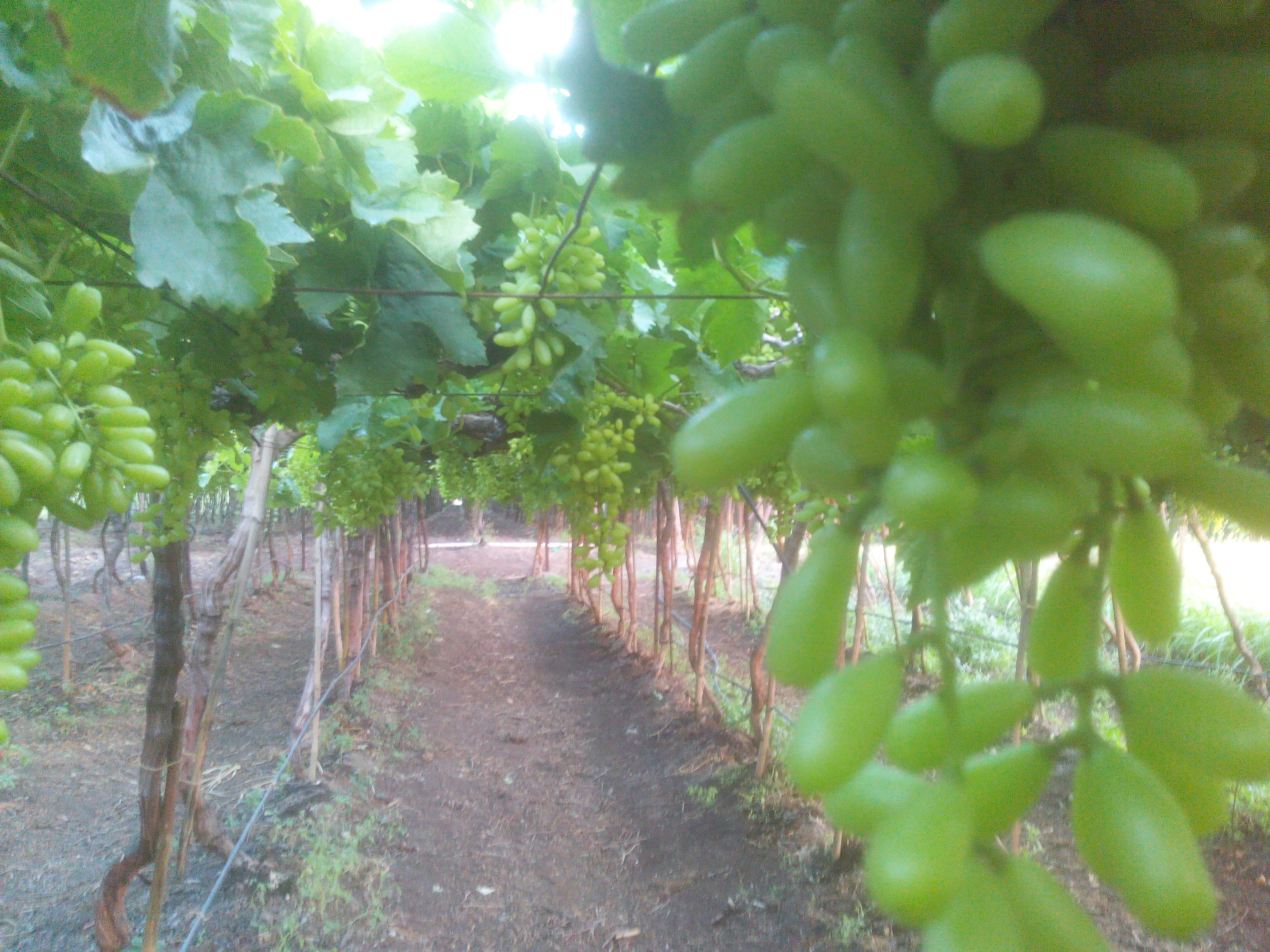 grapes which is in Pre coloring stage in Mali grapes garden in Kundal town